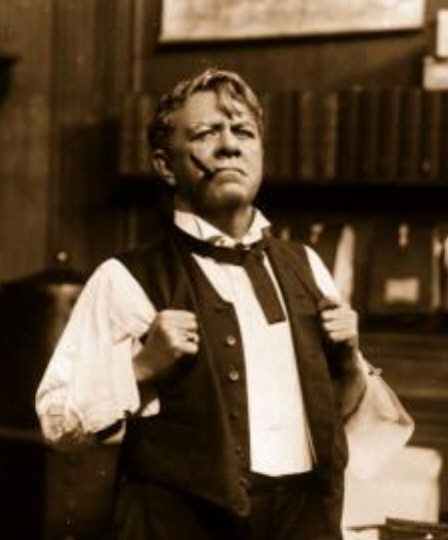 George Fawcett (* 25 August 1860; † 6 June 1939), US actor; from the play The Great John Ganton co-starring Laurette Taylor.